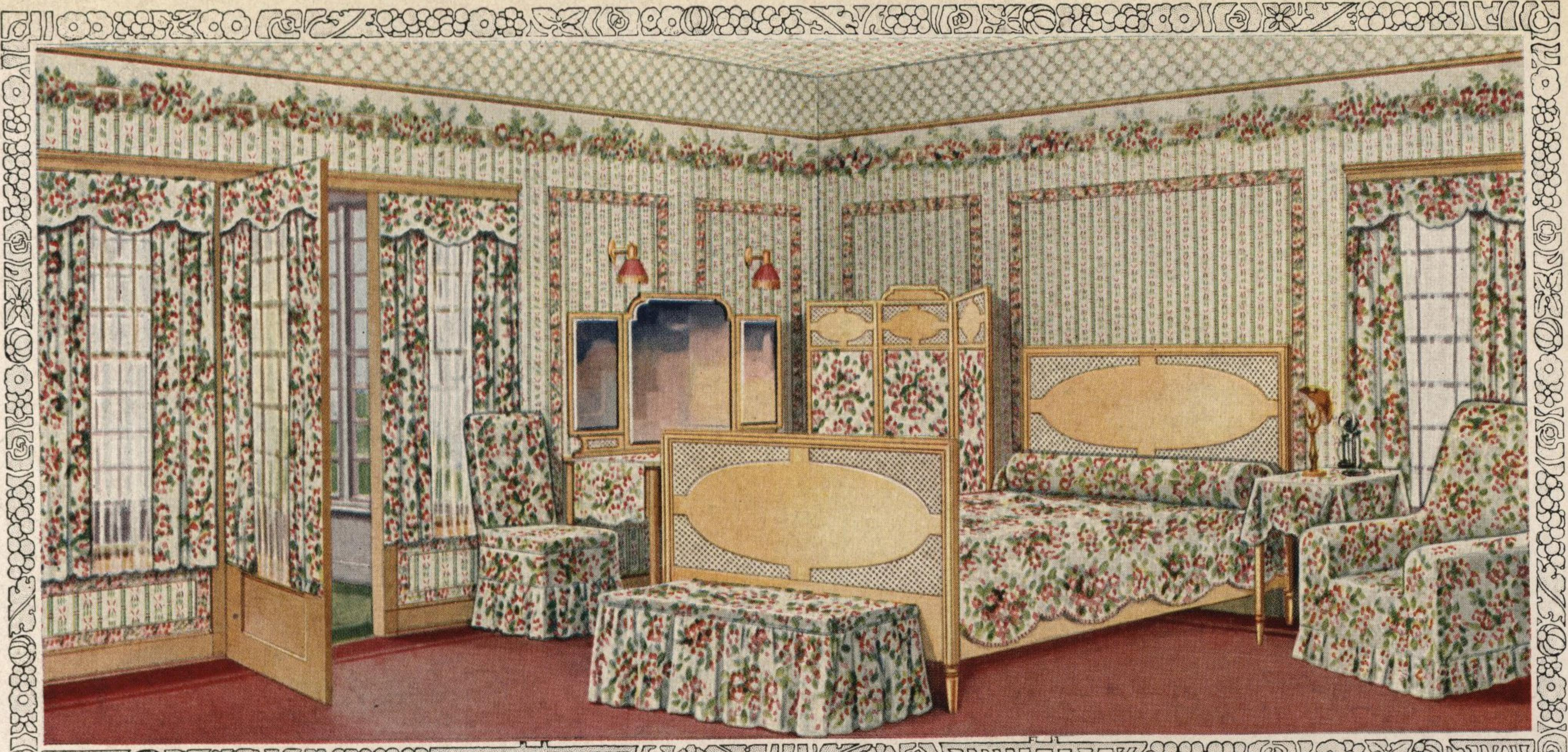 Title: Wall paper for every home, 1916 Year: 1916 (1910s) Authors: Sears, Roebuck and Co. Subjects: wallpaper -- catalogs Division 09 wall coverings wallpapering Publisher: Sears, Roebuck and Co. Text Appearing Before Image: ll paper,. an accurate color reproductionof which is shown on page 107. Abeautiful pink wild rose has been usedto advantage in making one of themost pleasing border decorations wehave ever seen. The same wild rose pattern hasbeen used in the cretonne which isalso illustrated in colors. Cretonneis fast becoming a very popularmaterial for the decoration of the modernbedroom. The up to date housewife isemploying it very cleverly for furniturecoverings, sofa pillows, shirt waist boxesand window seats, as well as for curtains. If you like Side Wall No. 53C171, butprefer this beautiful pink wild rose border,order the following: No. 53CI7I Side Wall, pebble embossed, per double roll 20« No. 53C3263 Border, pebble embossed cut out,9 inches wide, with 2 yardsof 3-inch binder with eachyard of border, per yard 80 No, 53CI72 Ceiling, pebble embossed, per double roll 20o No. 24C7308 Cretonne to match, 36 inches wide, per yard 2 I e RiIllNIIIIIIMIIllH Page 104 SEARS, ROEBUCK AND CO., CHICAGO. ILL. Text Appearing After Image: I ■ I